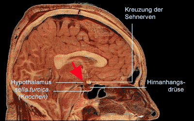 Location of Hypothalamus